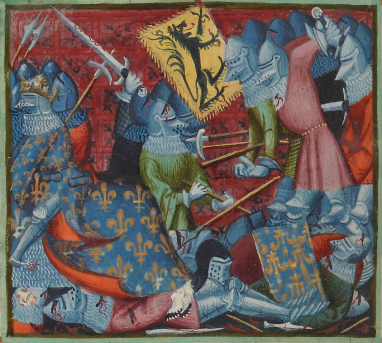 Miniature from the Grandes Chroniques de France (Paris, BnF, MS Français 2608, fol 377v). The miniature shows the French in chaotic retreat from the Flemish foot soldiers, who cut down the few remaining knights at the center.